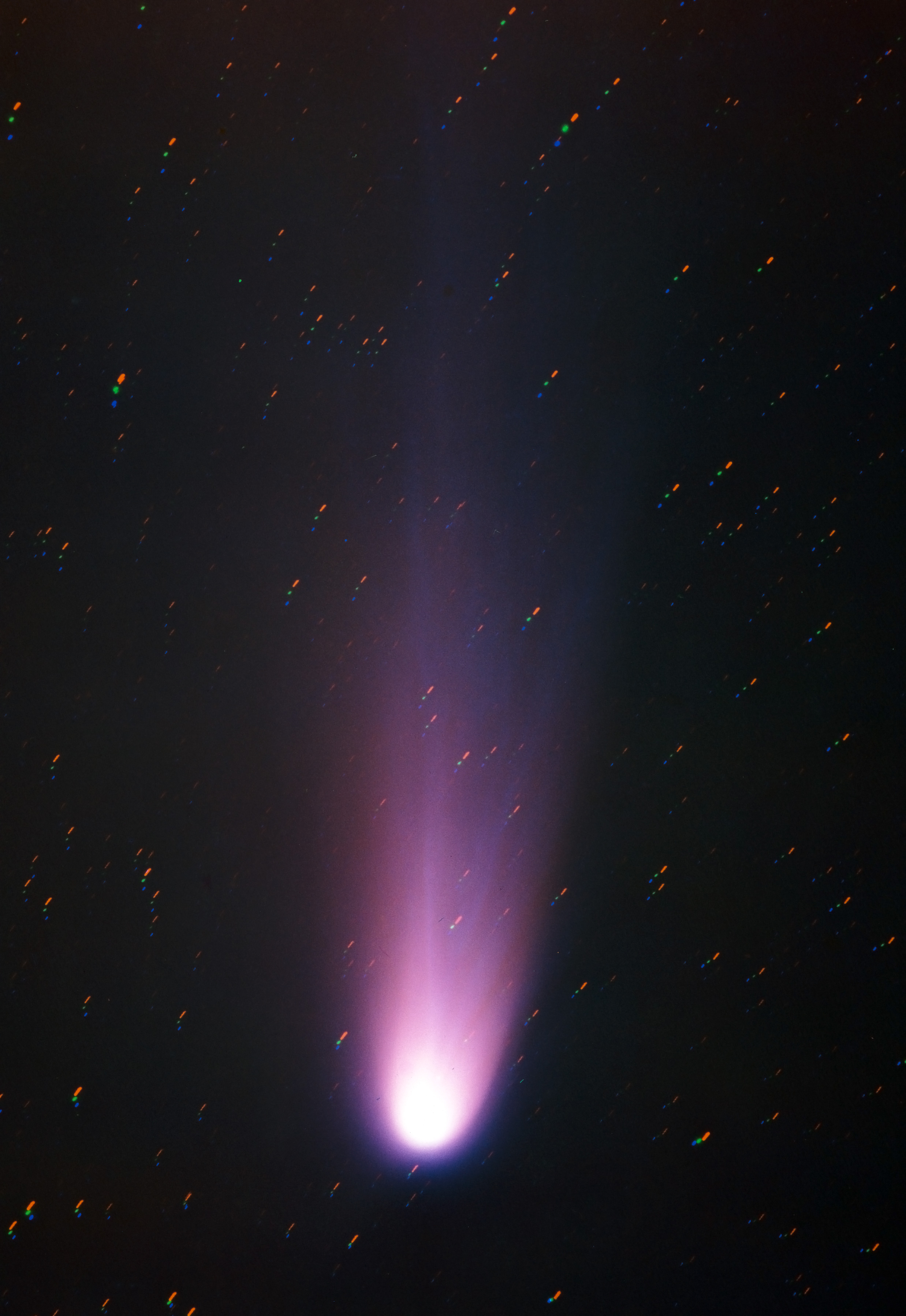 Beautiful image of the Halley Comet and its tail. This colour image was assembled by combining three individual exposures obtained on three separate photographic plates with the GPO telescope in 1986.